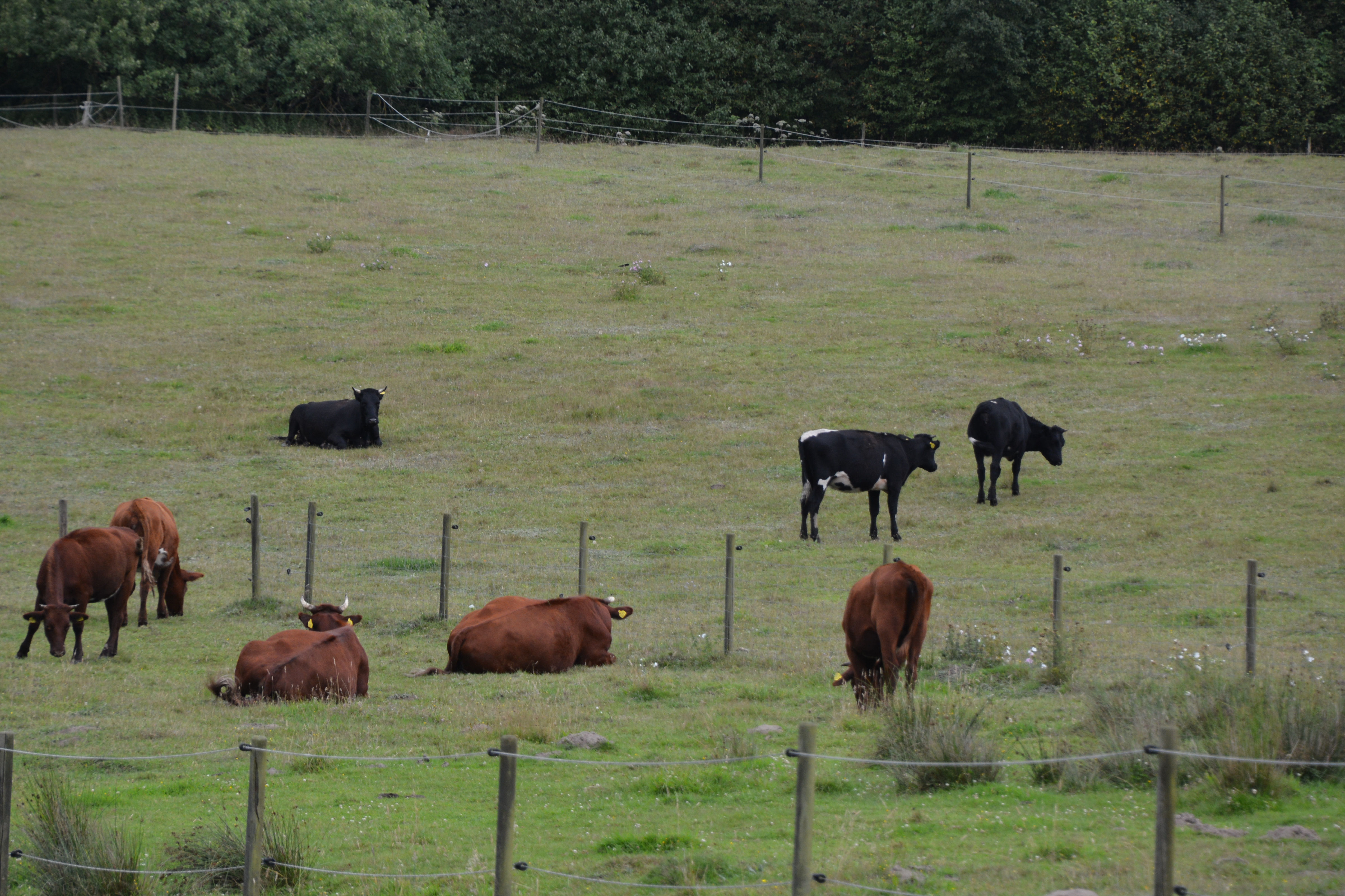 Allmogekor på Kulturens Östarp